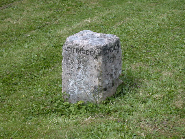 Milestone on Ermine Street (2), near to Caxton, Cambridgeshire, Great Britain. Huntingdon 9 London 50. See the other side: TL3058 : Milestone on Ermine Street (1)